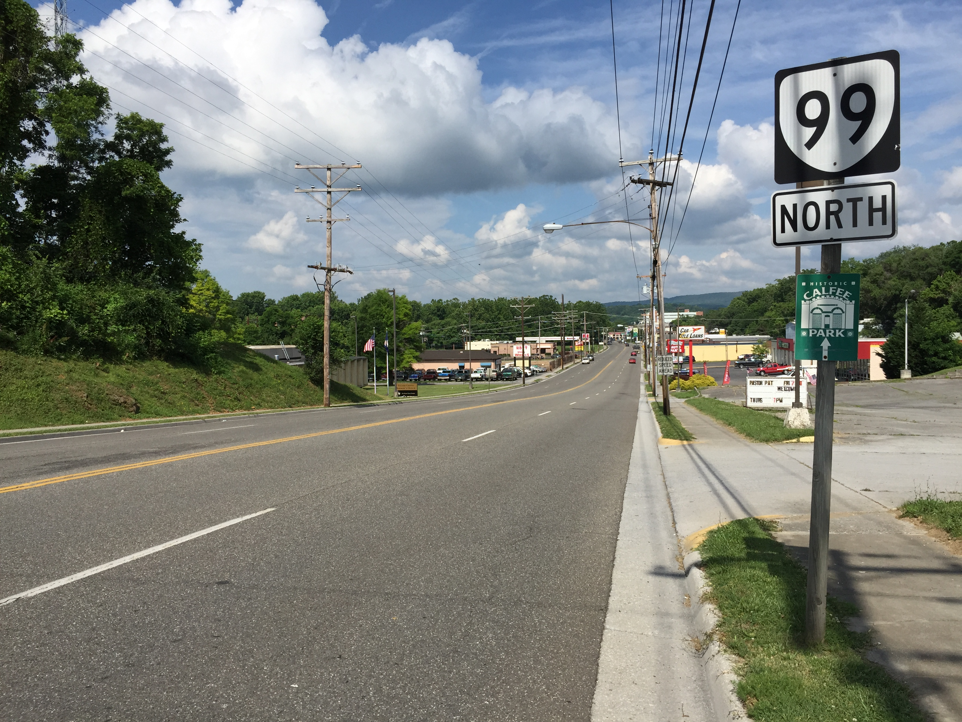 View north along Virginia State Route 99 (Main Street) at Newbern Road in Pulaski, Pulaski County, Virginia